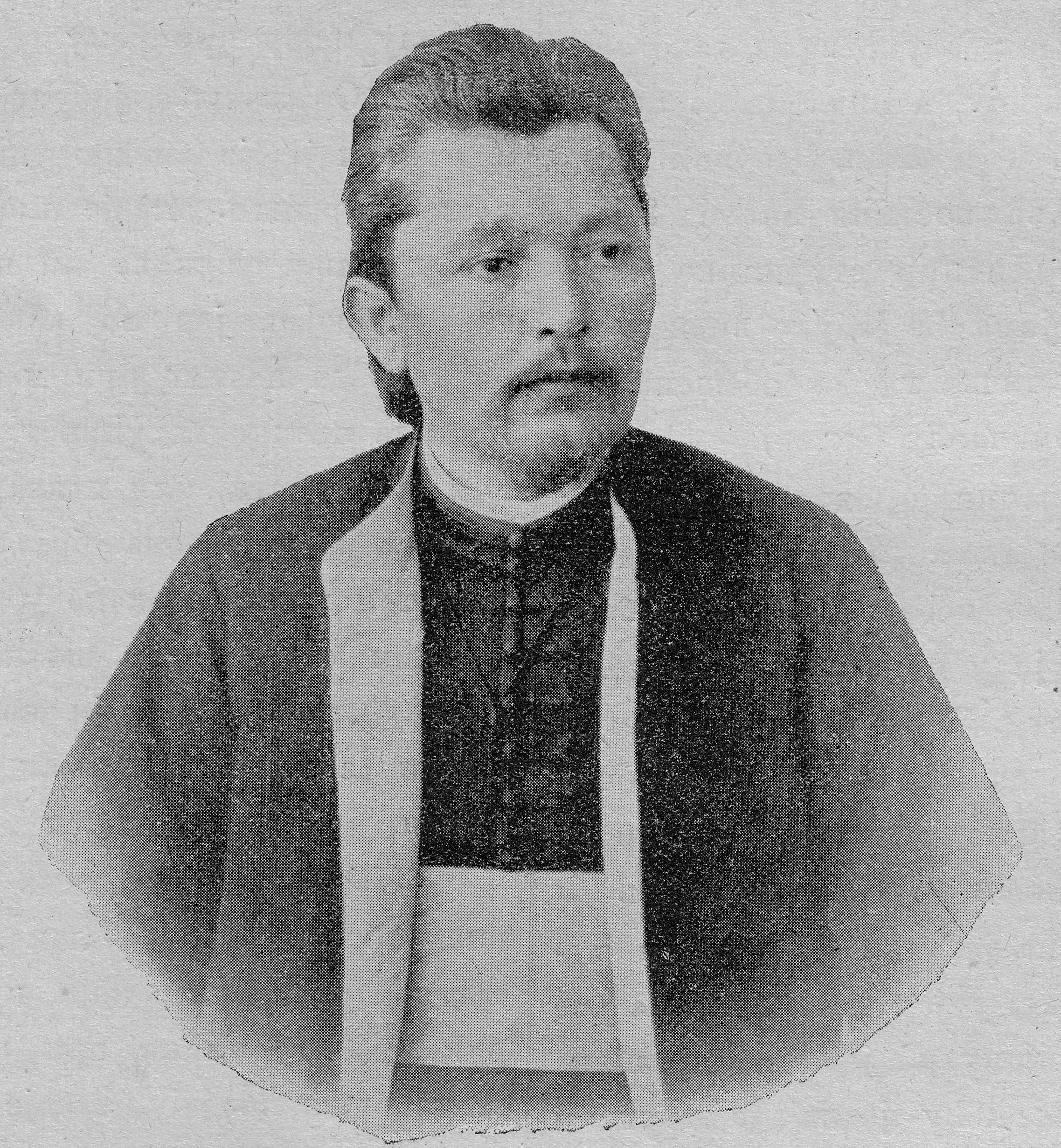 A photograph of Jovan Vučković (1855-1931), priest, professor and rector of the Clerical High School in Sremski Karlovci.Taken from the 1898 edition of the calendar Orao. Srpski (latinica): Fotografija Jovana Vučkovića (1855–1931), sveštenika, profesora i rektora karlovačke bogoslovije. Preuzeto iz izdanja kalendara Orao za 1898 godinu.